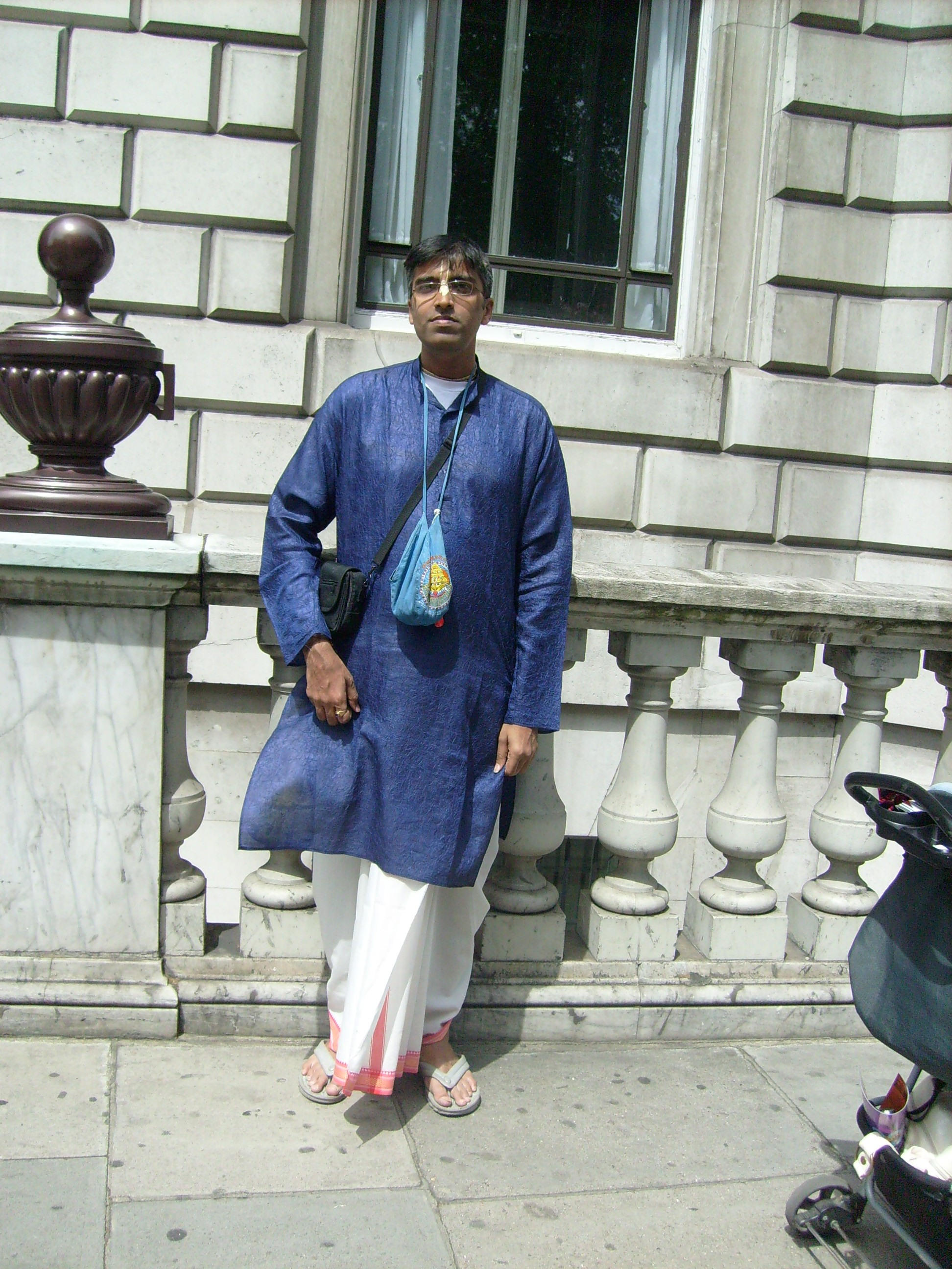 A Man wearing Indian traditional Dress, Dhoti and Kurta (ધોતી-ઝભ્ભો)